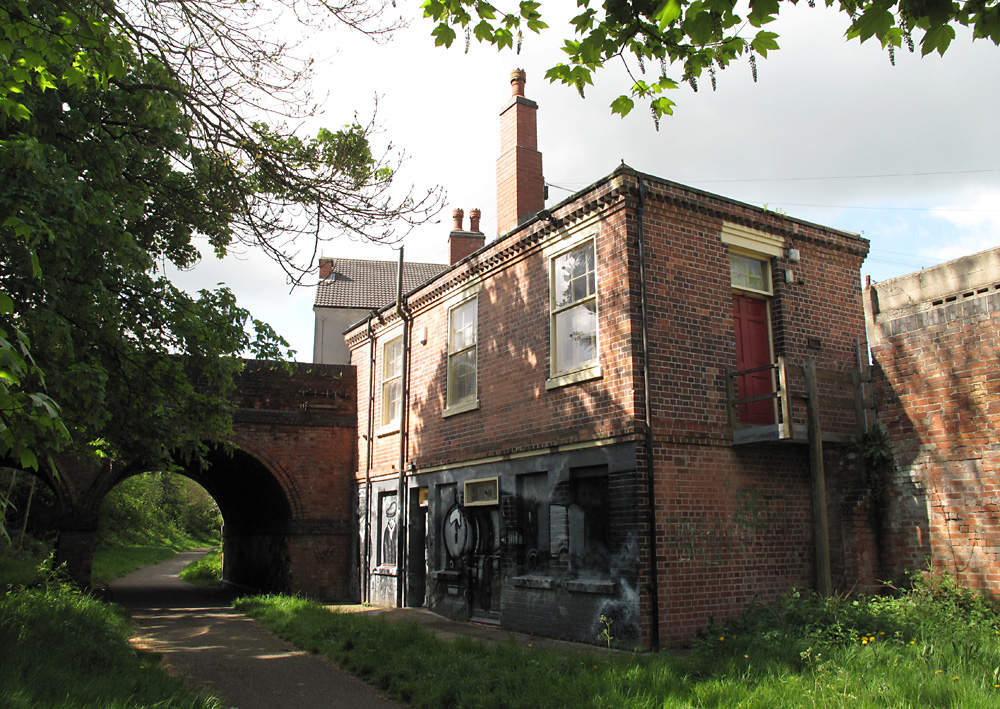 Whitwick station at trackbed level. Originally built by the Charnwood Forest Railway and opened in 1883, it was owned successively by the LNWR (London and North Western Railway), LMS (London, Midland and Scottish Railway), and BR (British Railways). Passenger services on the line ceased to operate in 1931, with freight services ceasing to operate in 1963. It is now used by the Whitwick Historical Group. A railway-related mural covers the lower wall.